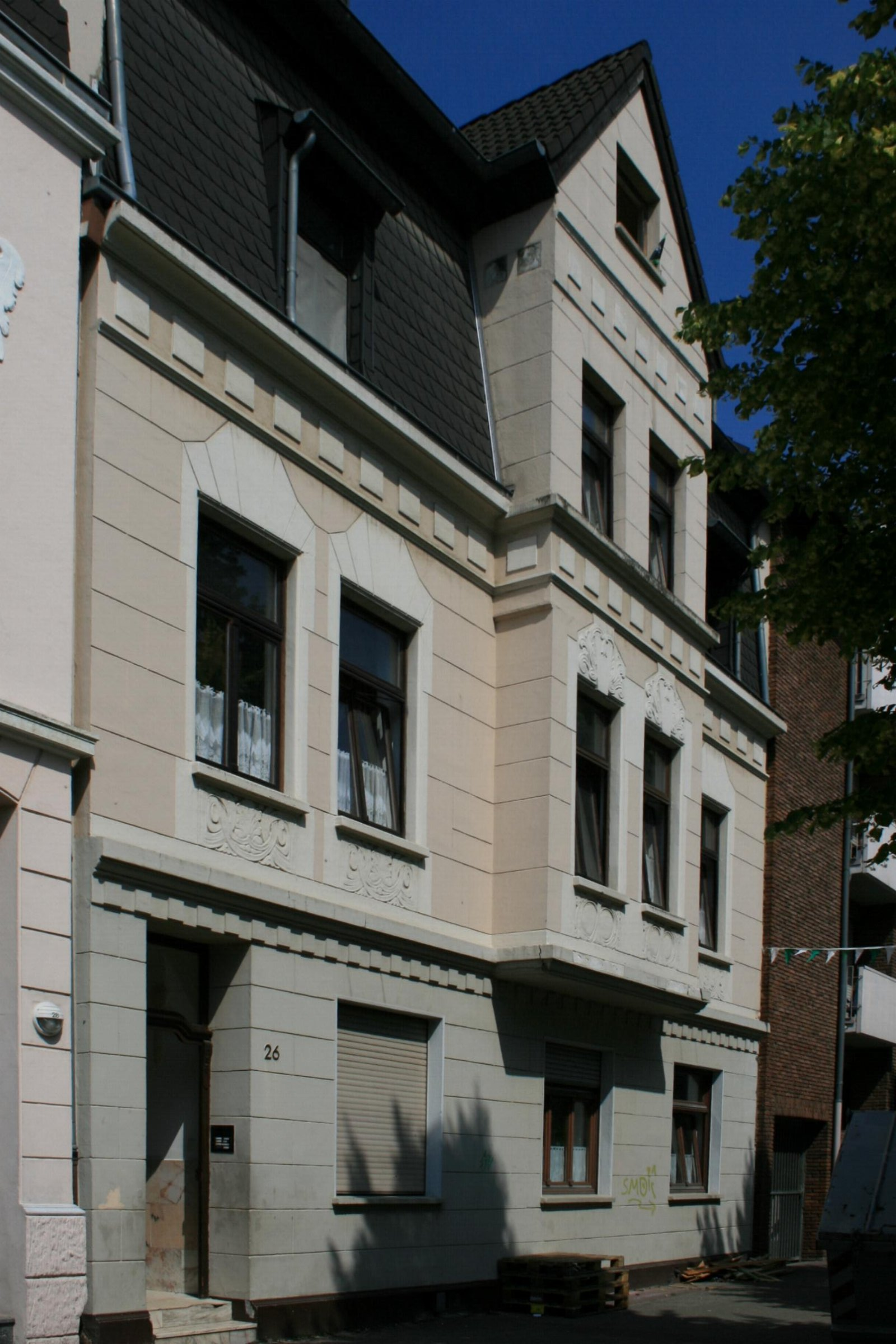 Cultural heritage monument No. S 008 in Mönchengladbach